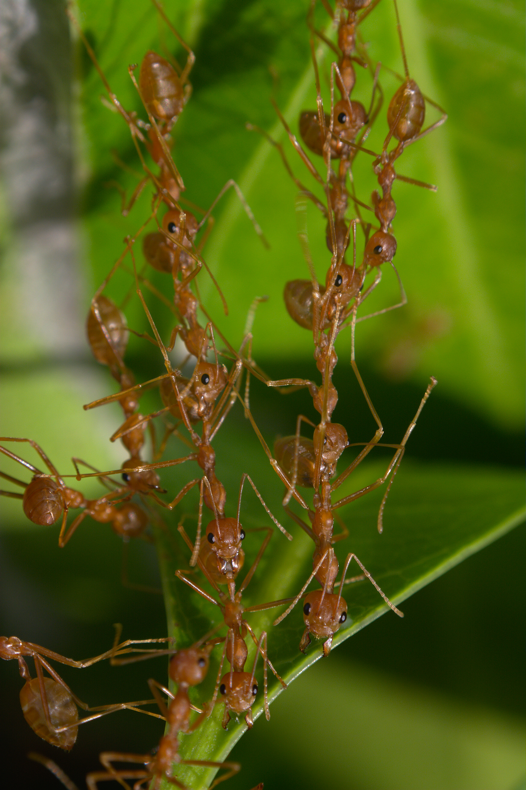 Ants forming a chain to pull a leaf while building their home.